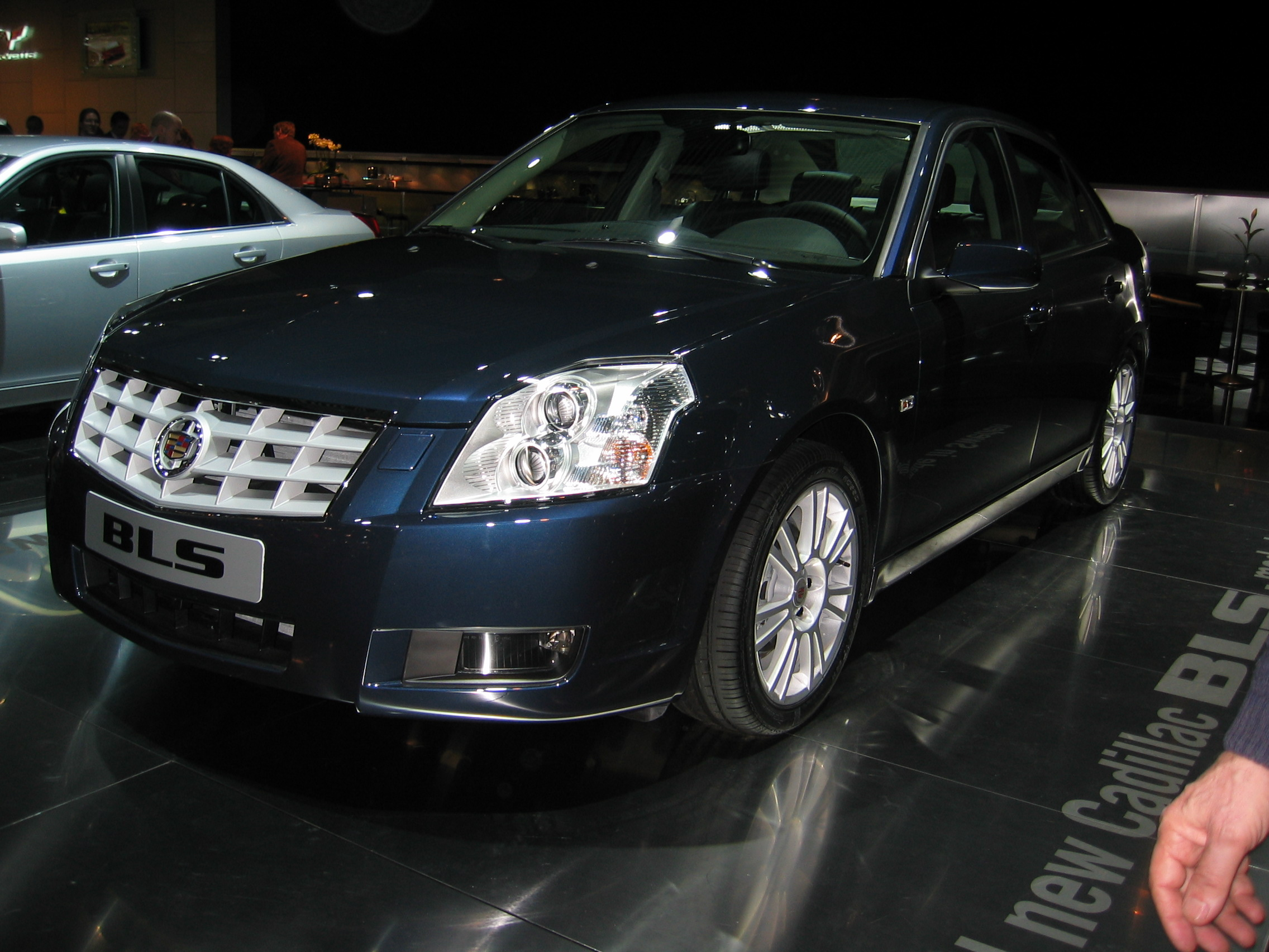 2006 Cadillac BLS